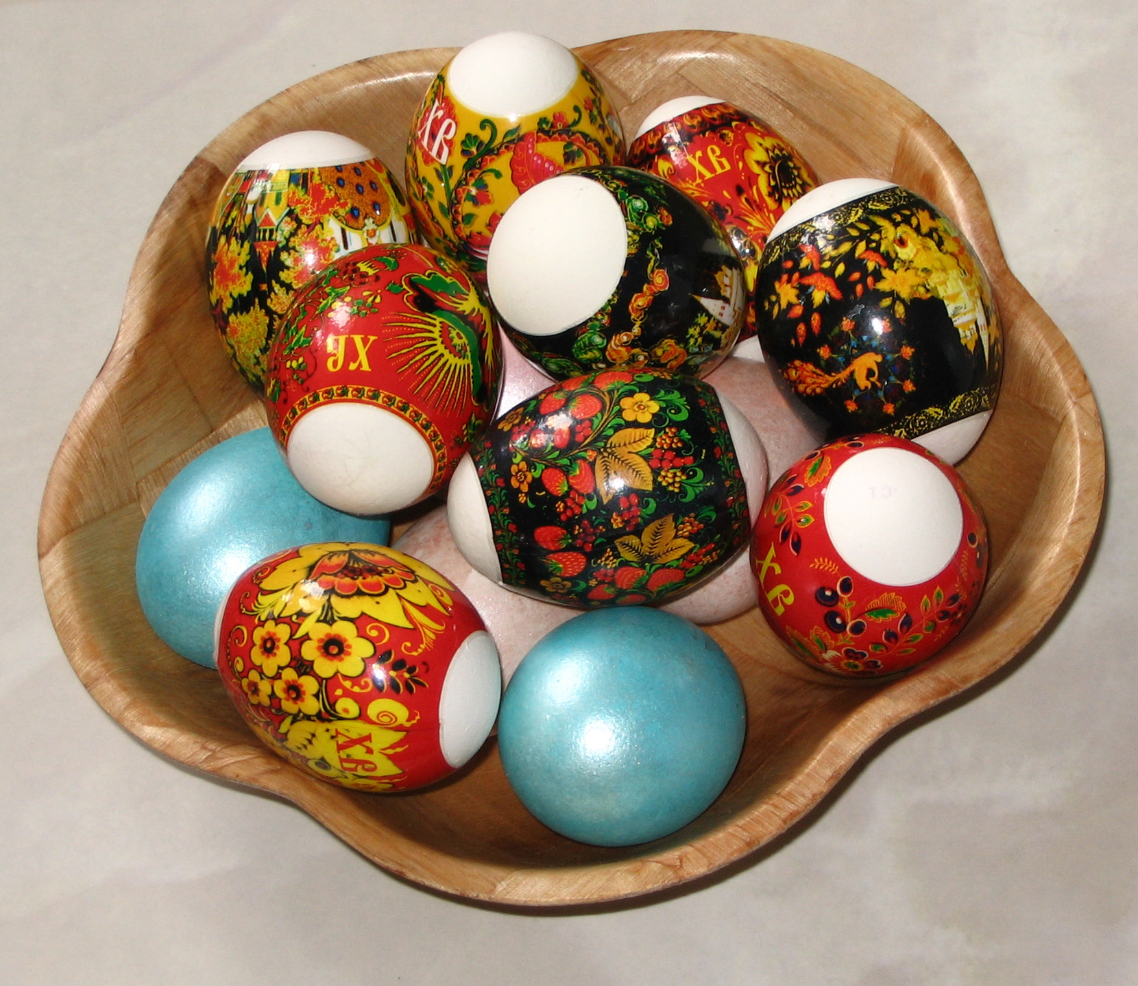 Easter eggs, Russia